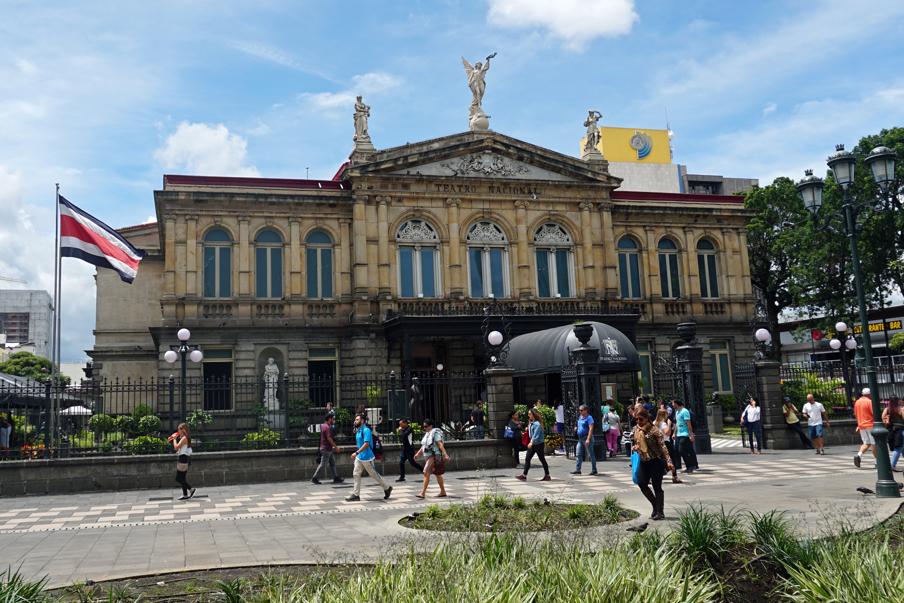 Main facade of the National Theater, San José, Costa Rica